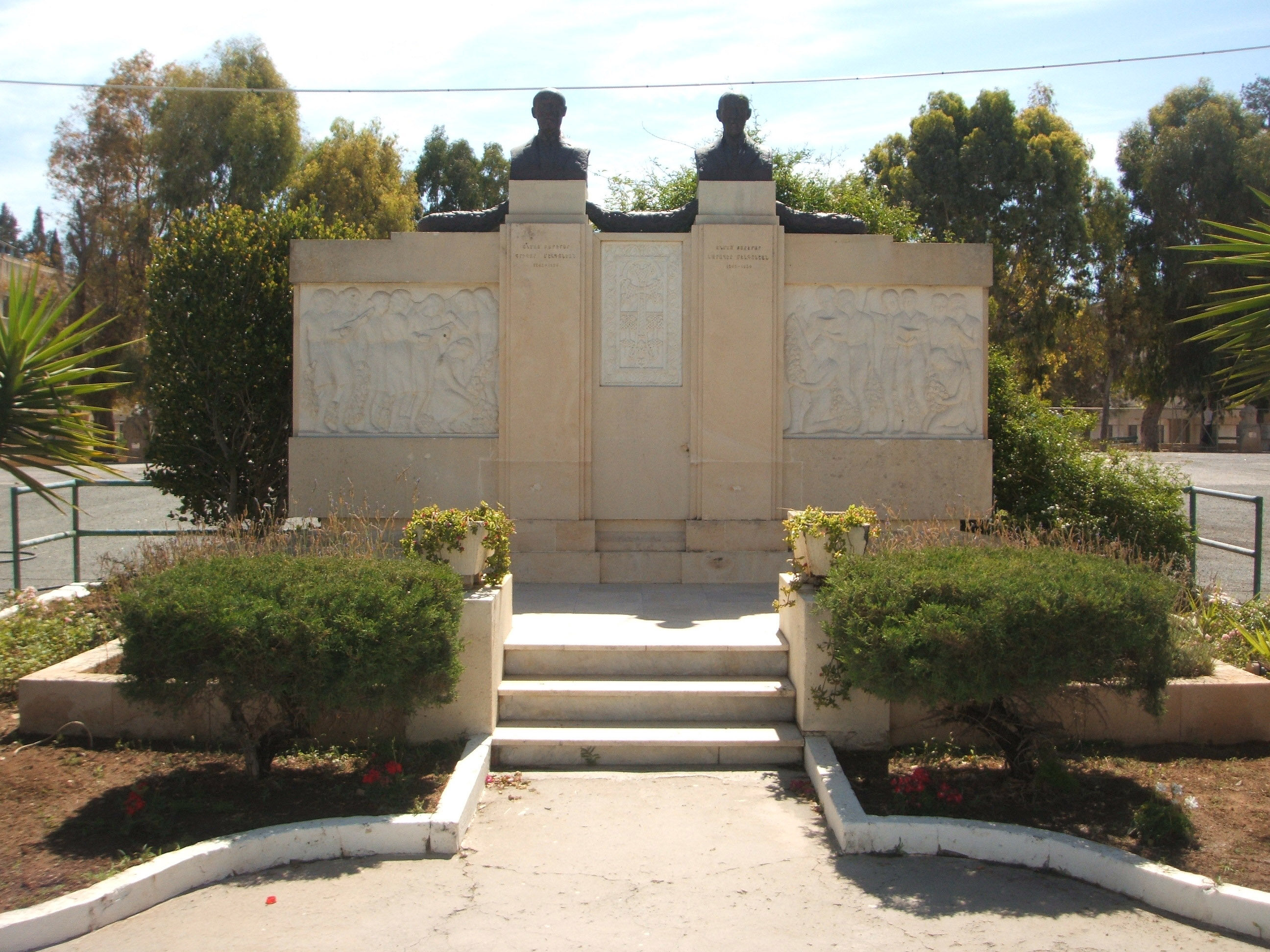 The mausoluem of Melkonian Brothers in Nicosia